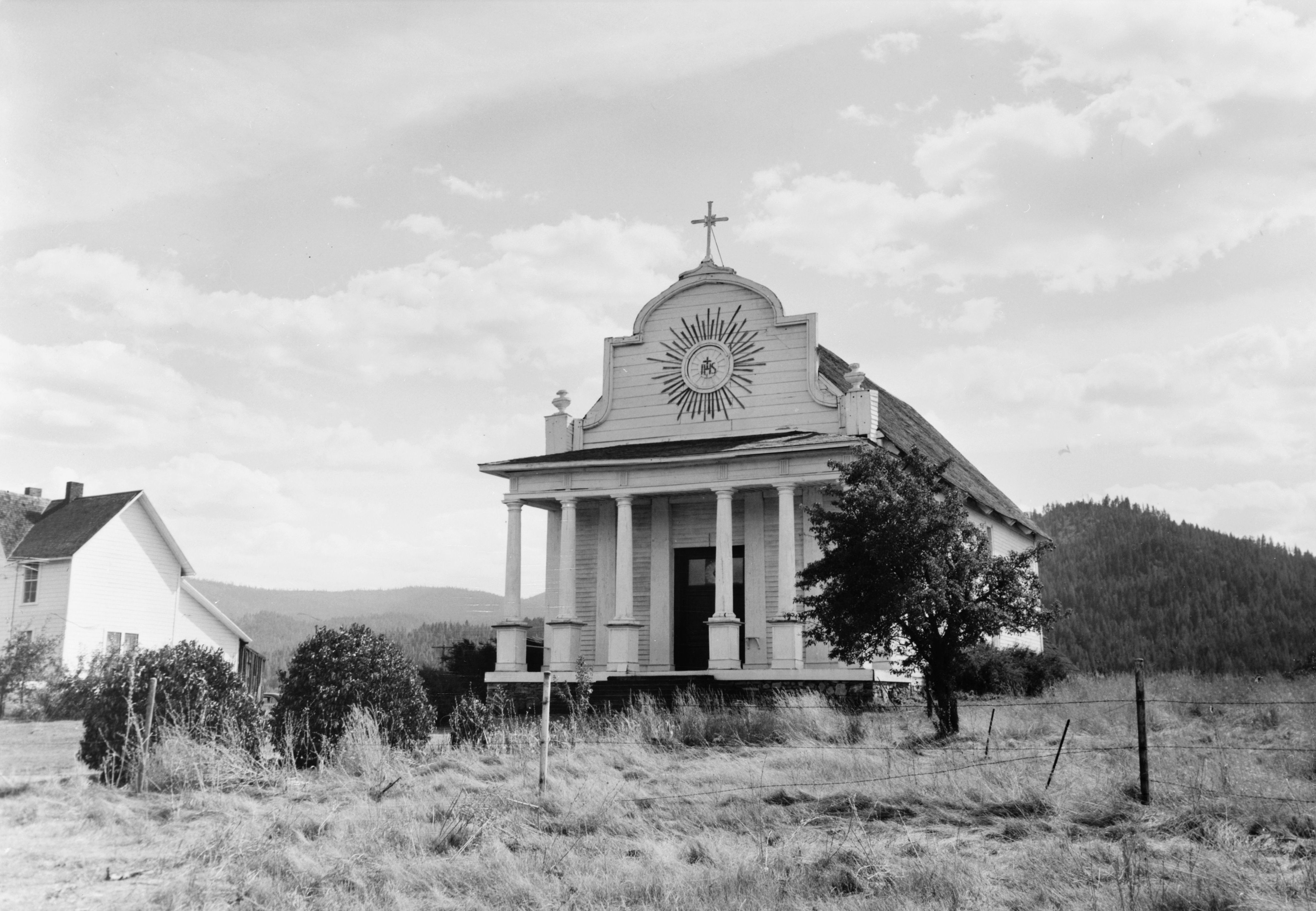 Cataldo Mission, also known as Sacred Heart Mission, Cataldo vicinity, Kootenai County, Idaho. View from northwest.